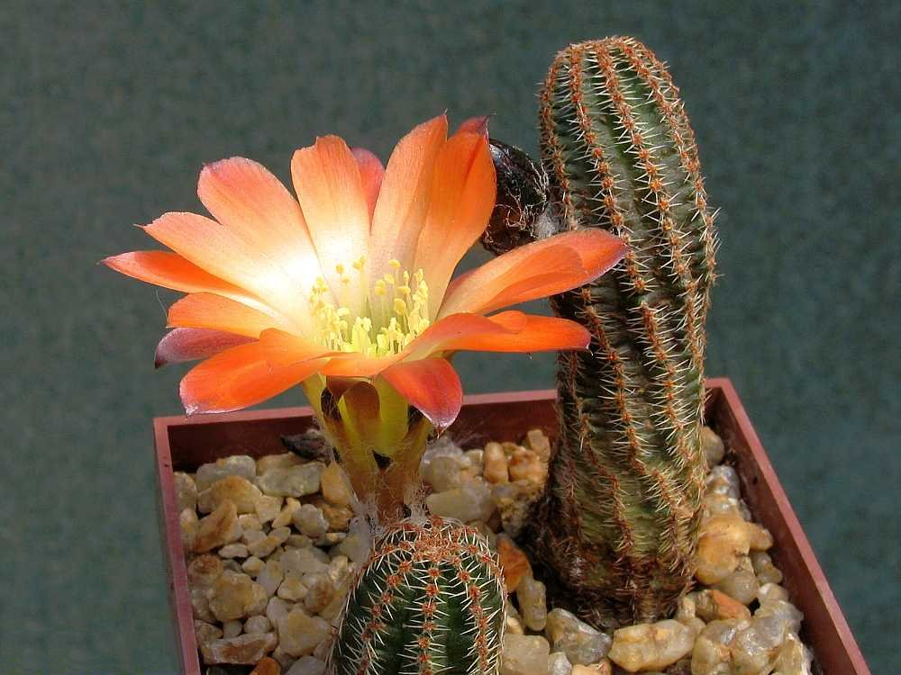 Rebutia torquata Ritter & Buining - cultivated plant from own collection.